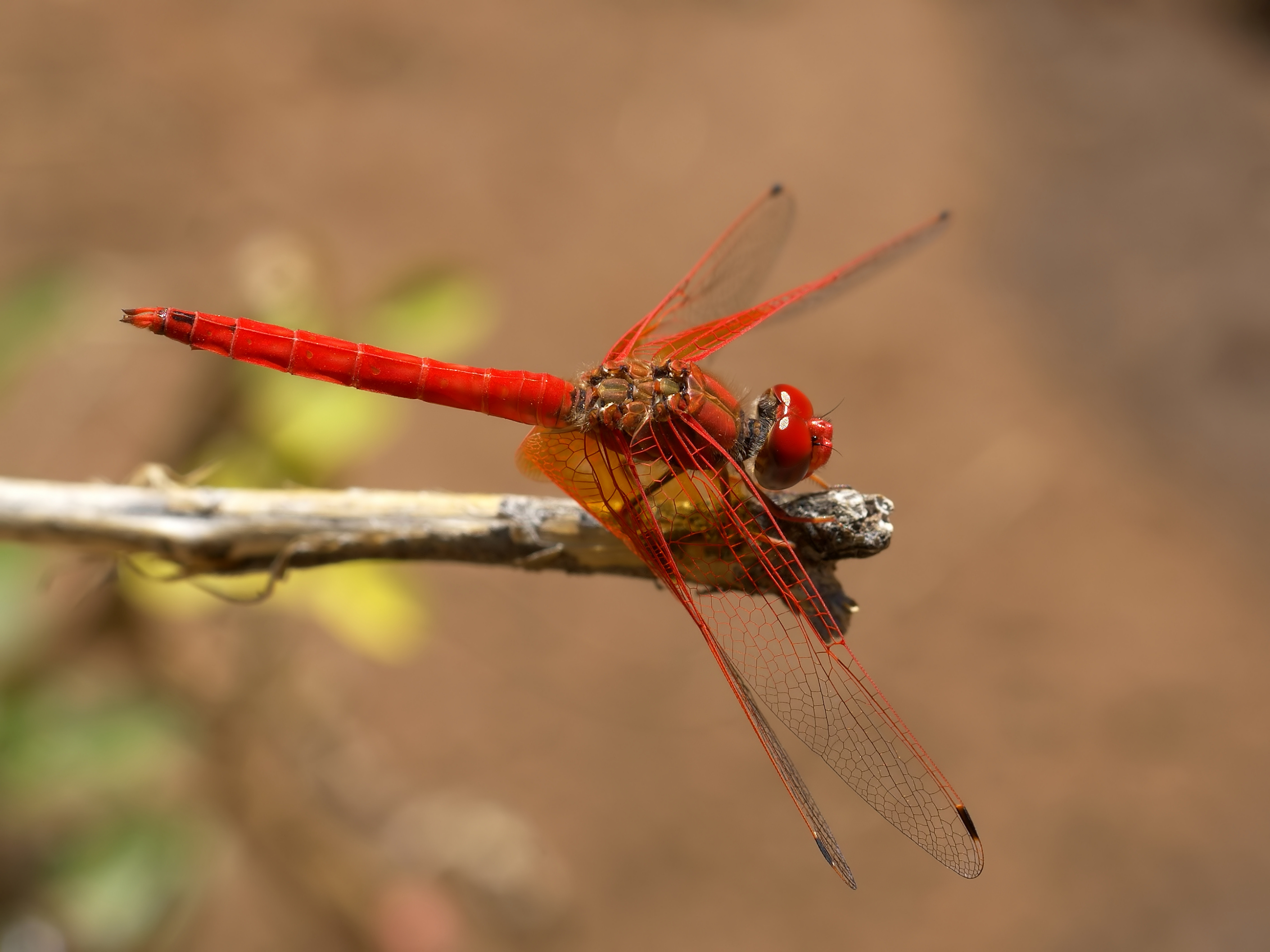 Kirby's Dropwing in Tsumeb, Namibia